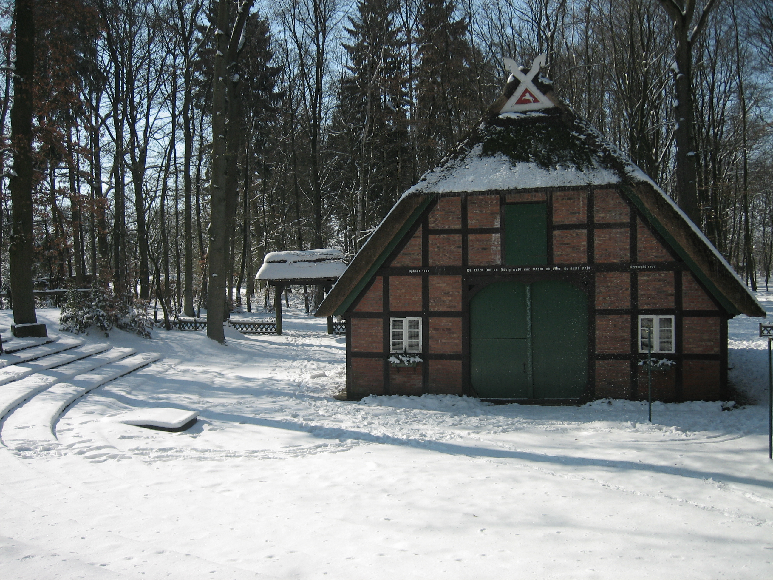 Winterscenery at the open air theater "Königshof" in Sittensen, Lower Saxony, Germany